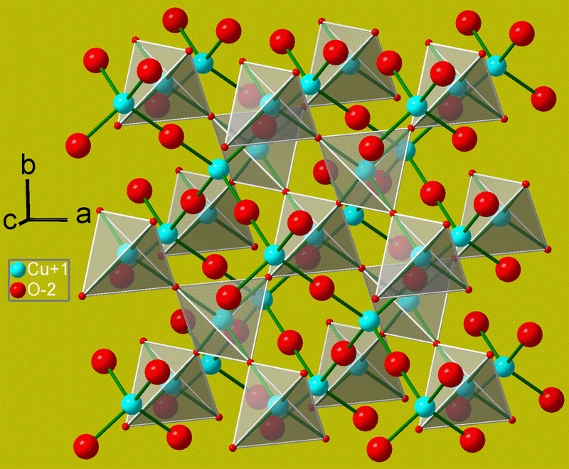 Crystal structure of cuprite